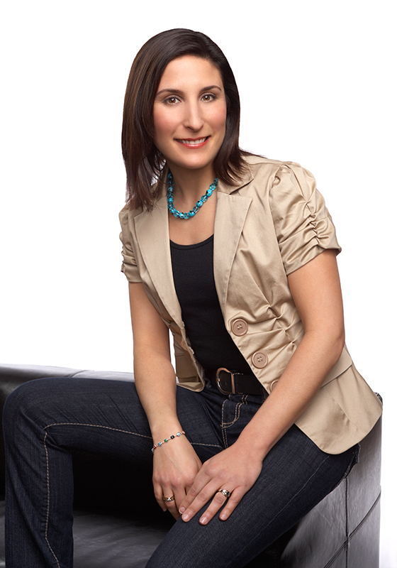 Rosalind Wiseman, American author